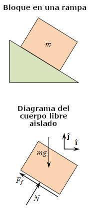 Block on a ramp (top) and corresponding free body diagram of just the block (bottom). Free body diagram of block on ramp.